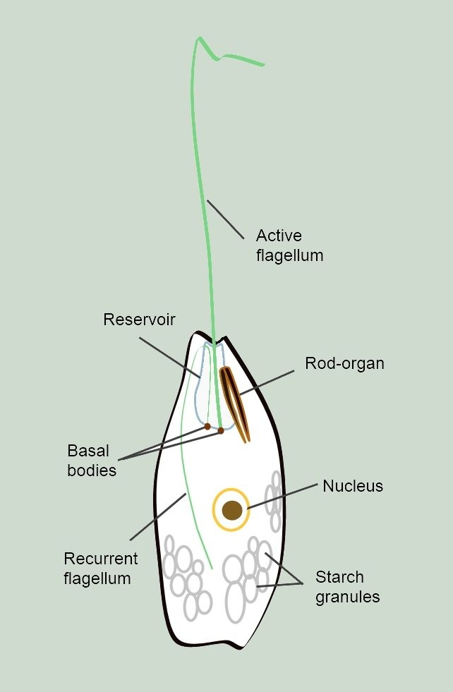 Diagram of Peranema, with morphological features labelled.